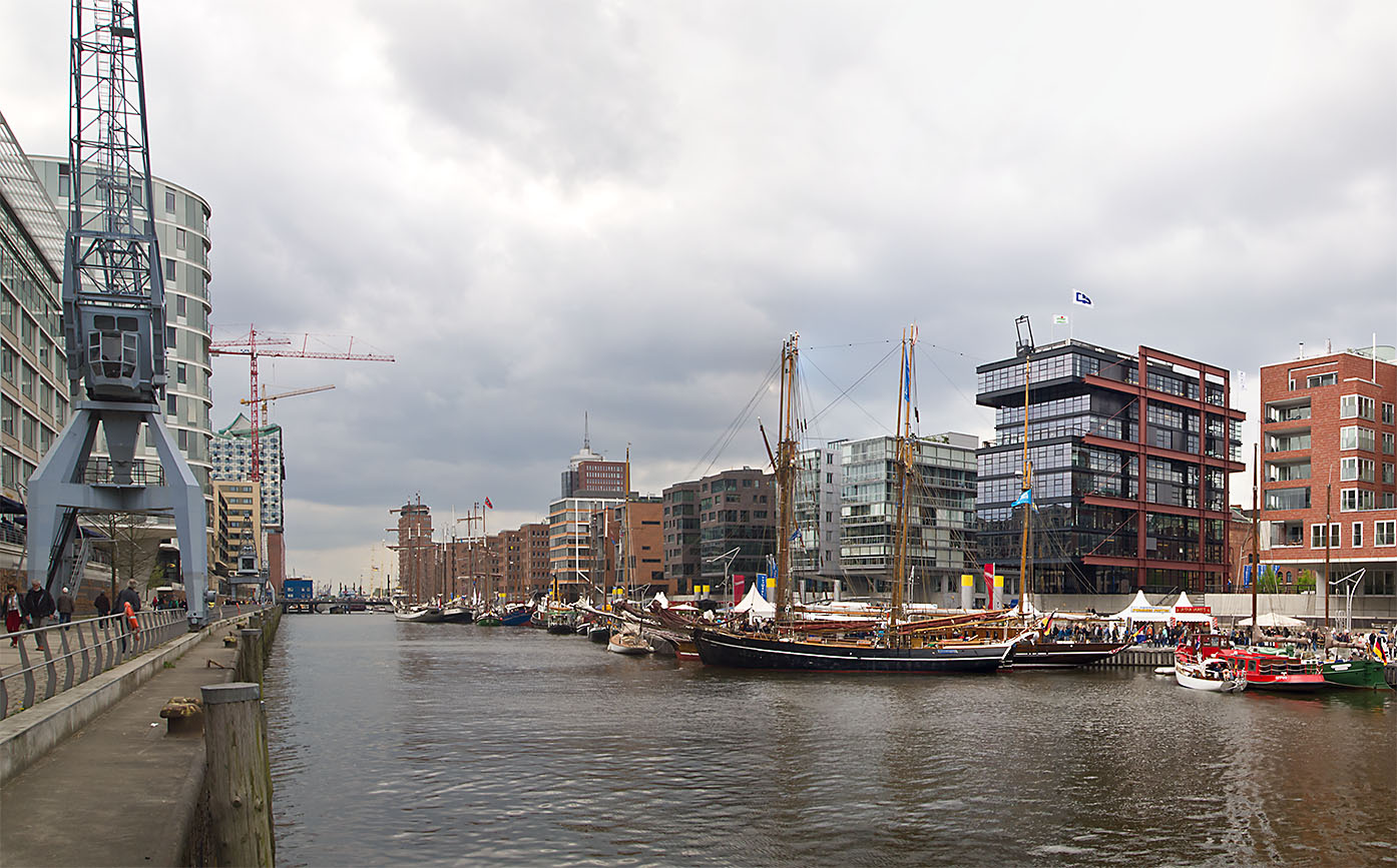 The Sandtorhafen with many sailing ships in Traditionsschiffhafen in HafenCity, Hamburg, Germany